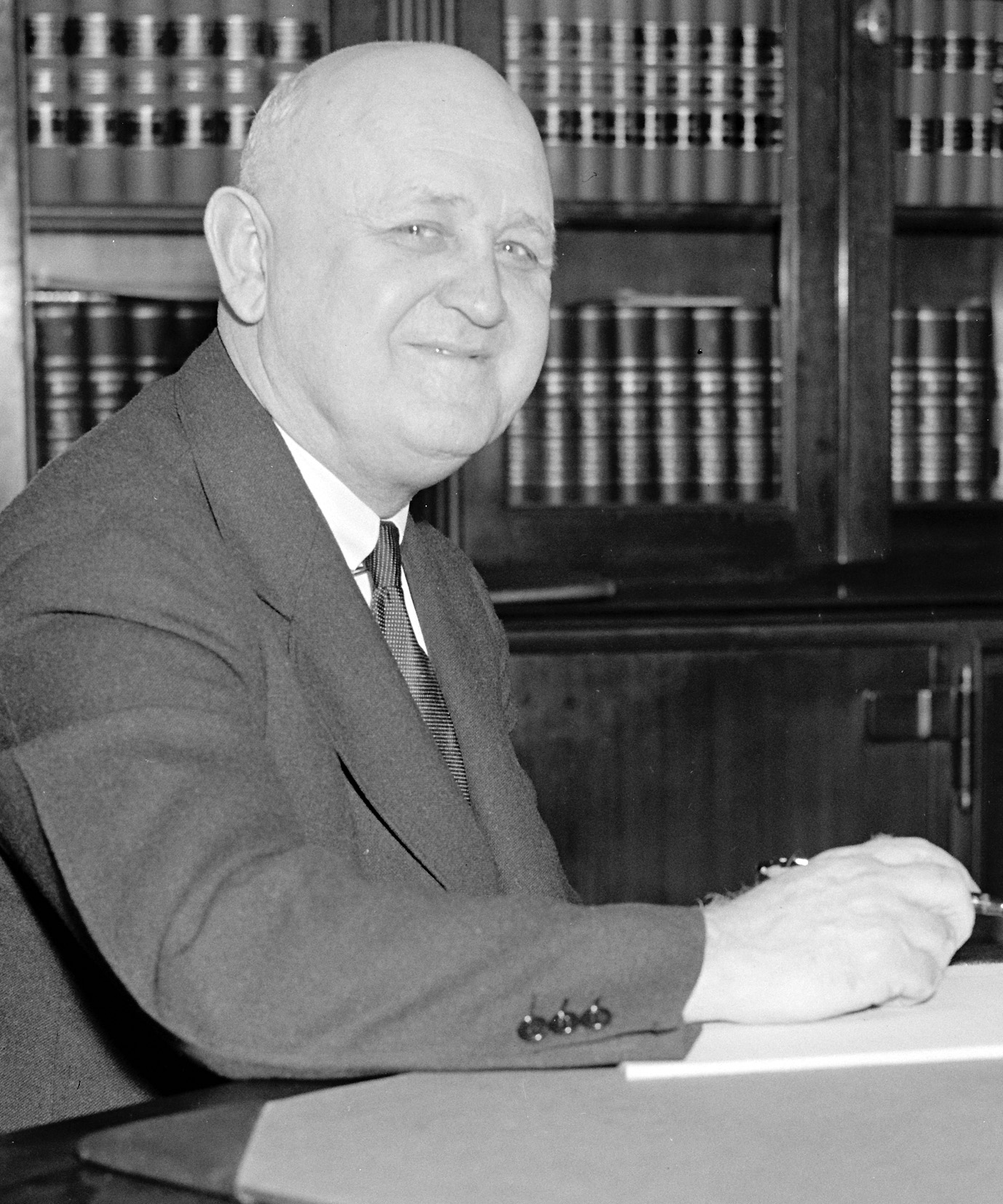 Robert L. Ramsay, US Representative from West Virginia